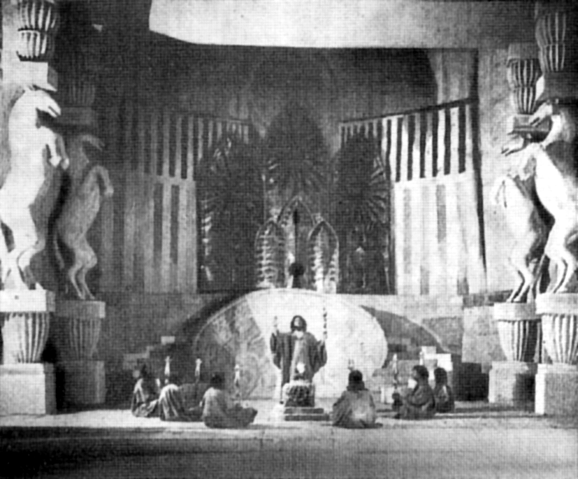 "Sakuntala" prologue, Moscow 1914